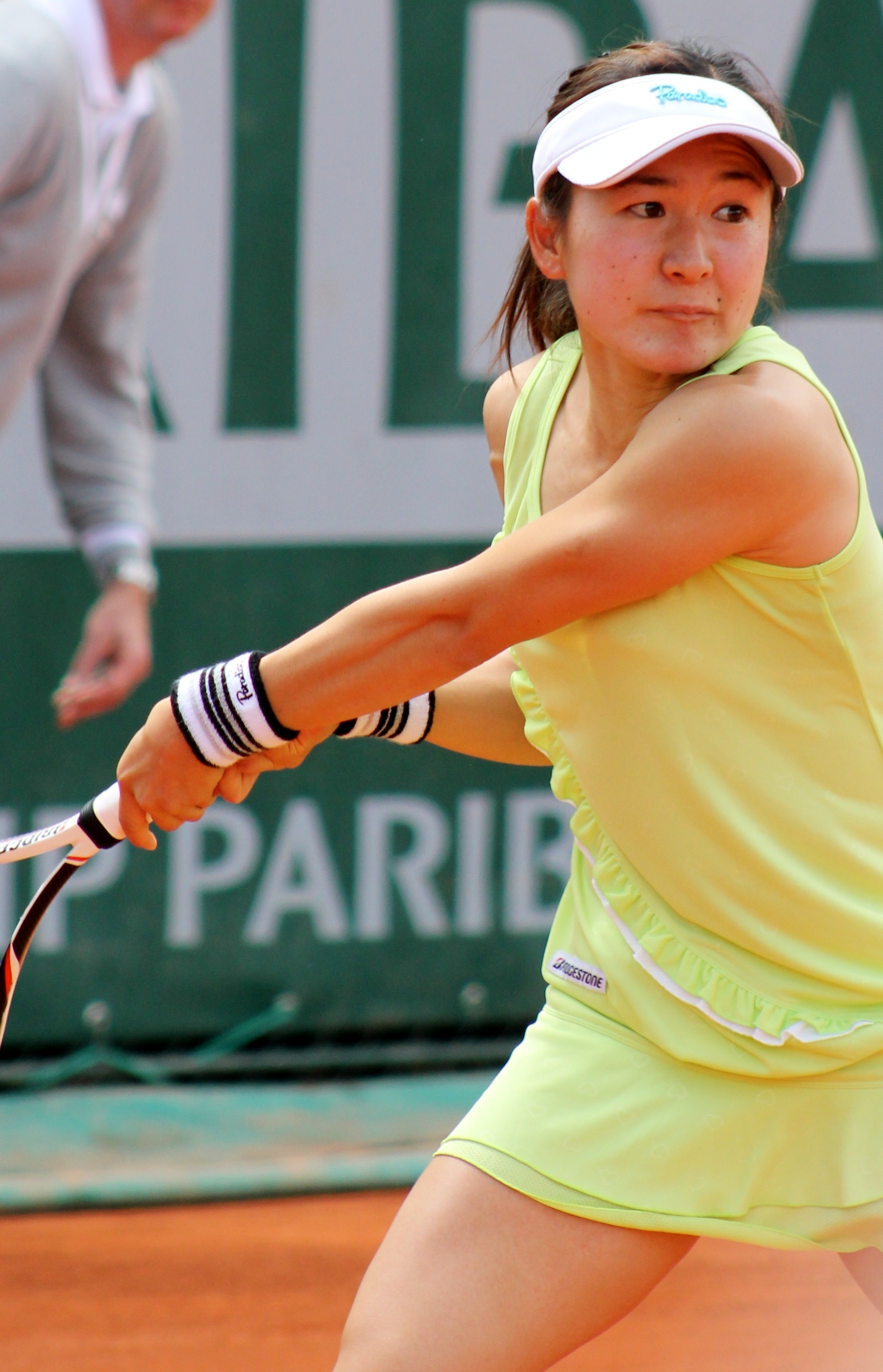 Shuko Aoyama playing at Roland Garros 2013